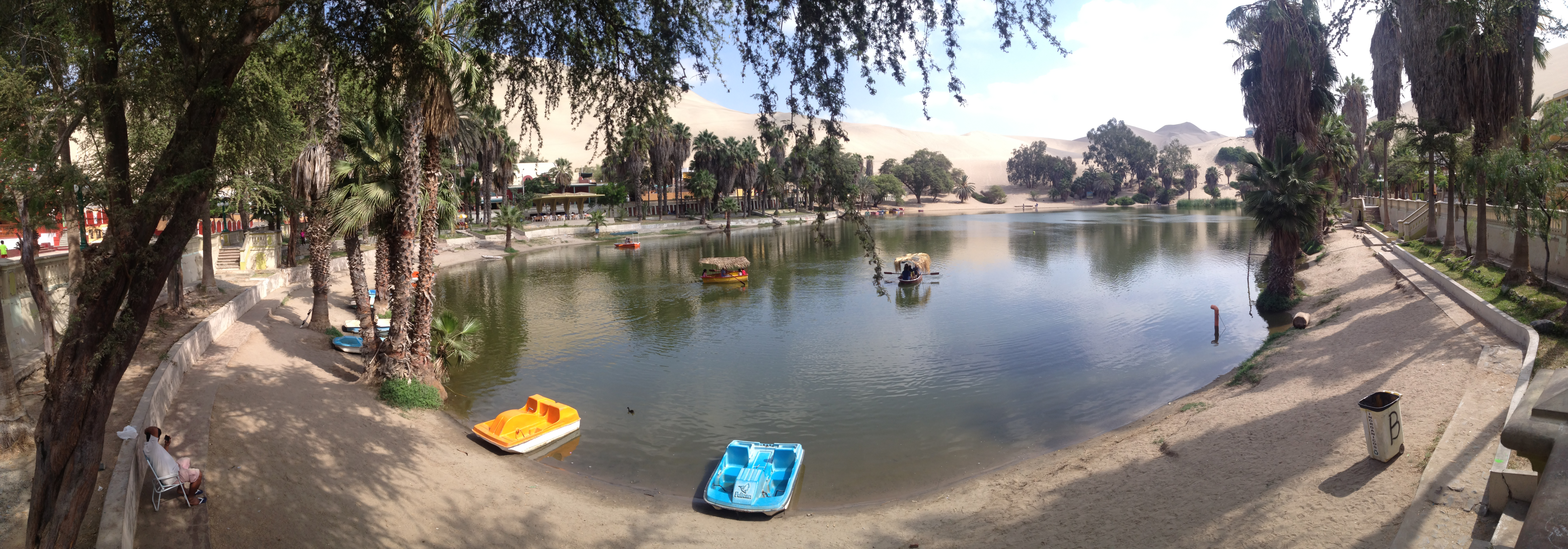 Panorama of Huacachina Oasis, Peru